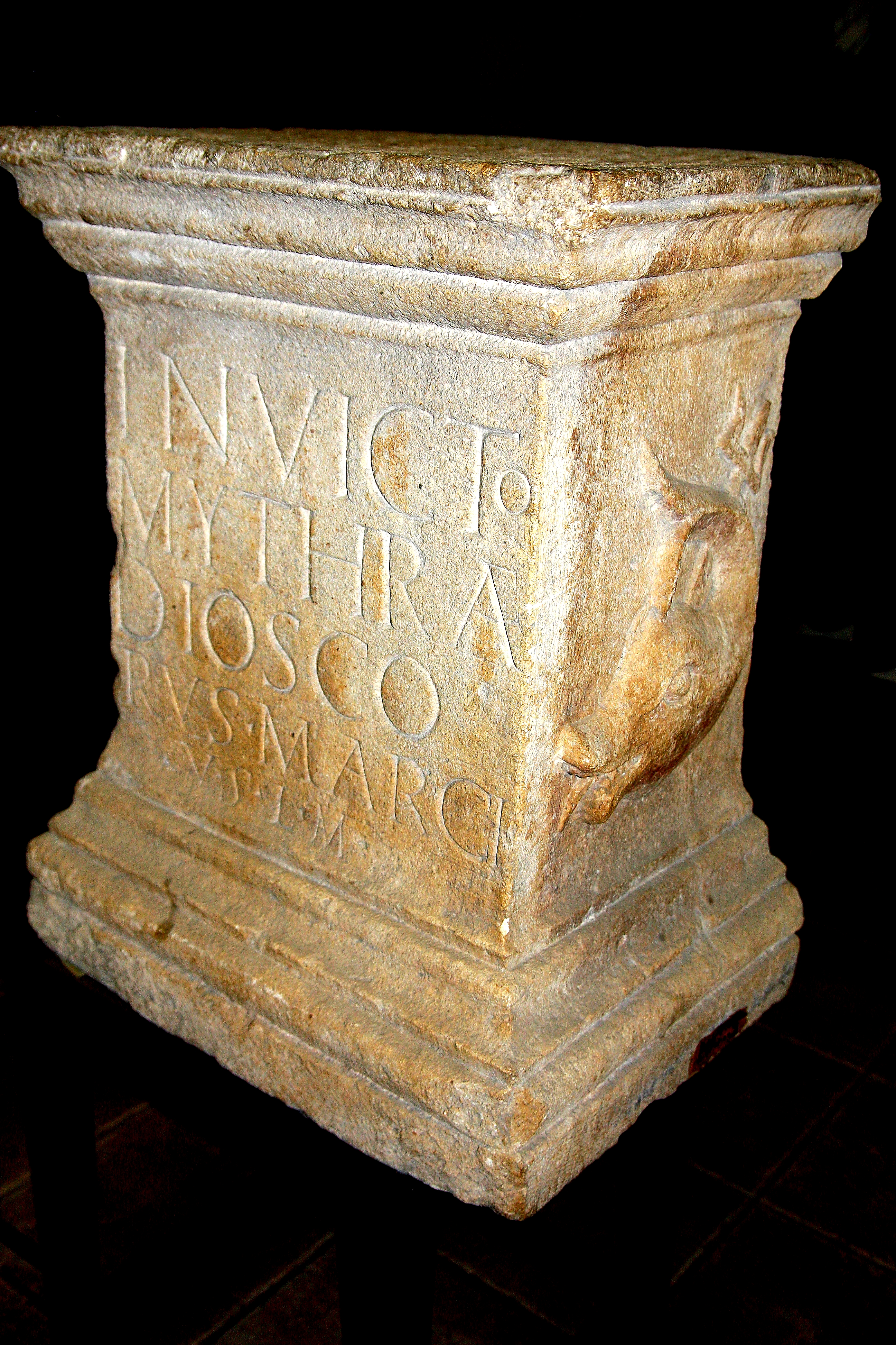 Votive altar dedicated to Mithras, originating from Alba Iulia in Romania, in the collections of the Romanian National Museum of History, corresponding to CIL III 113: Invicto/ Mythrae (sic)/ Dioscu/ros Marci/ v(otum) s(olvit) l(ibens) m(erito)